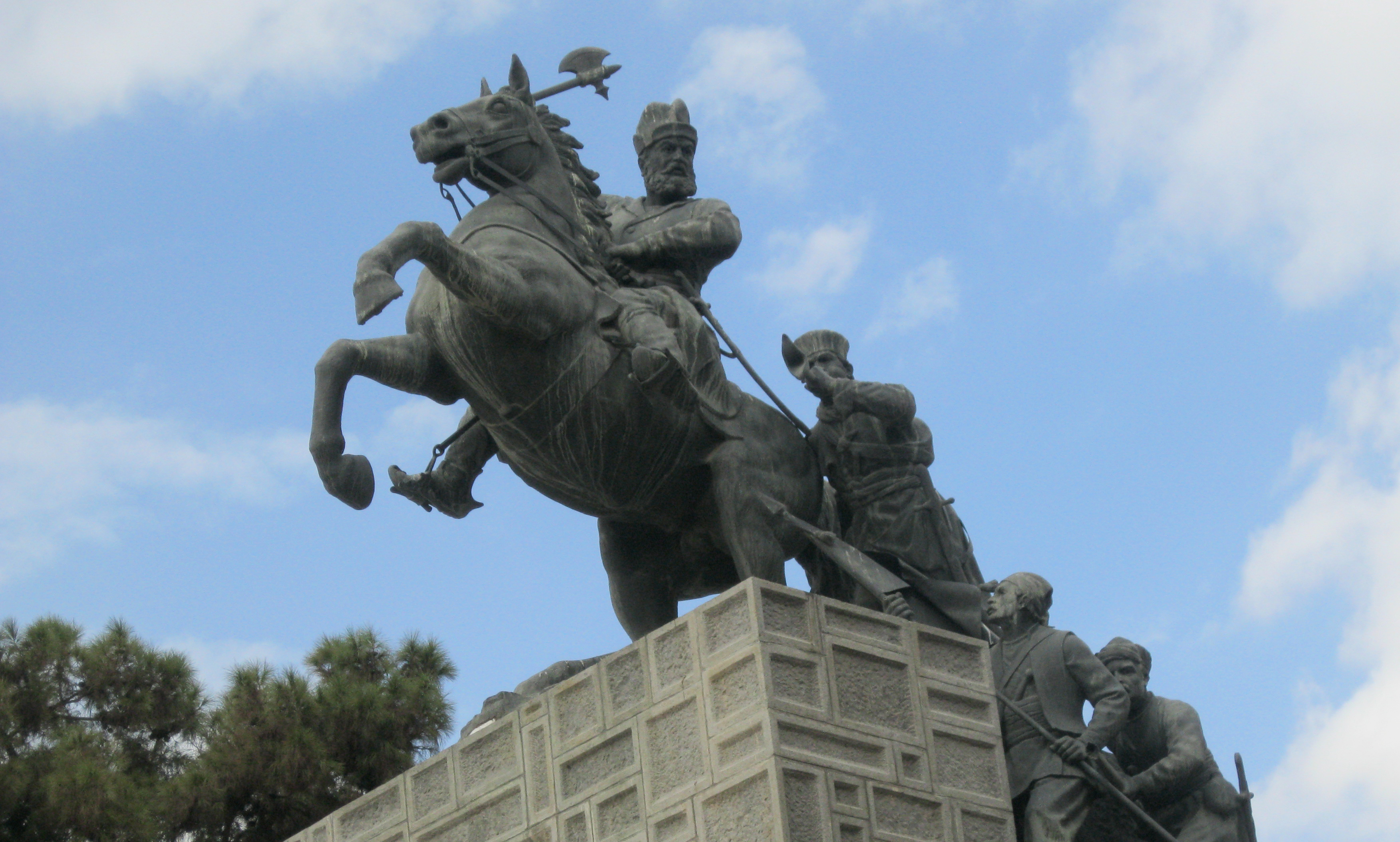 Statue of Nader Shah in the Naderi Museum, Mashhad